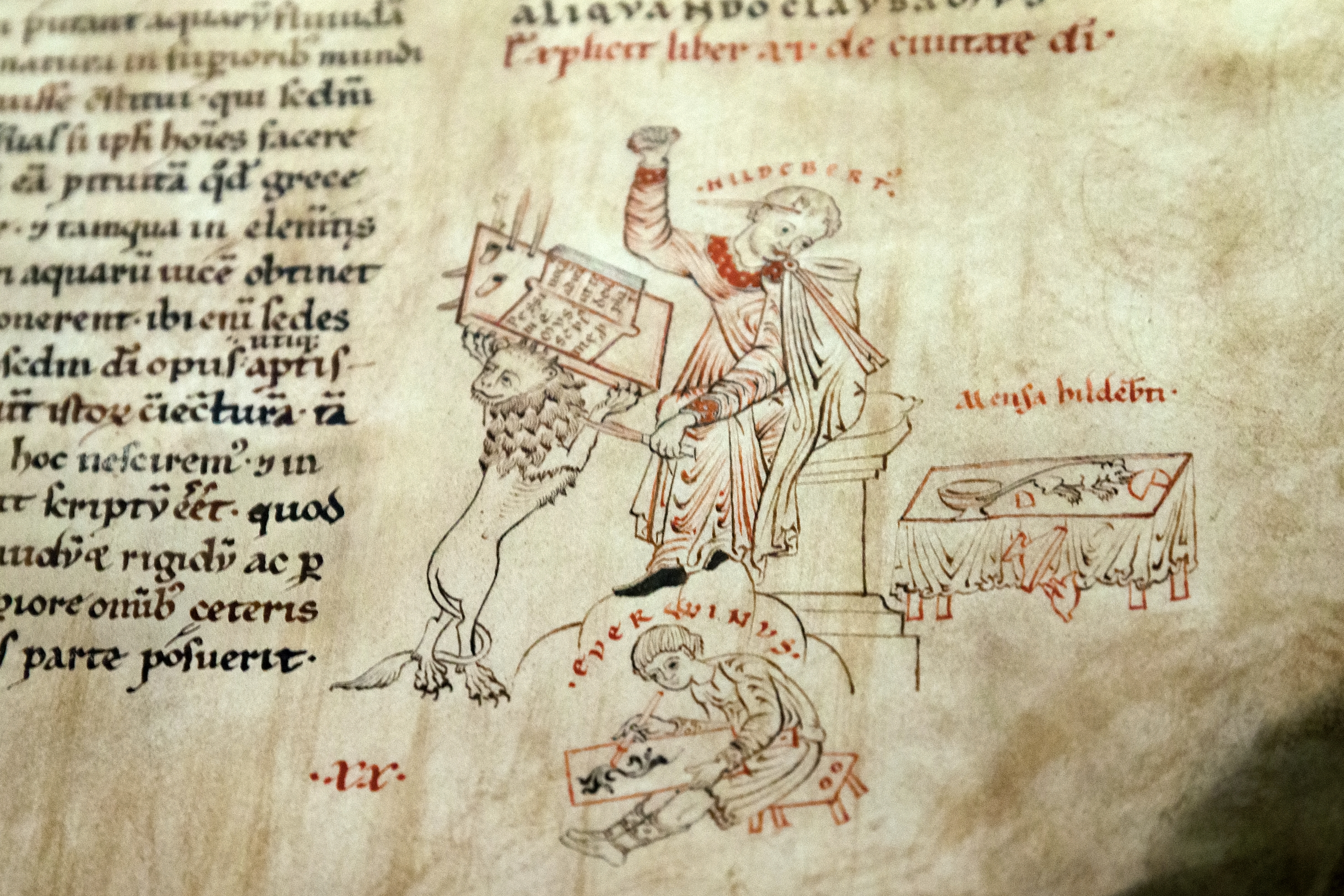 Facsimile: Aurelius Augustinus: De Civitate Dei. Olomouc - Prague, workshop of Hildebert and Everwinus, 1142-1150, parchment. The Archives of Prague Castle, The Library of the Metropolitan Chapter of St. Vitus, sign. A 21/1. Detail of scene with the mouse.